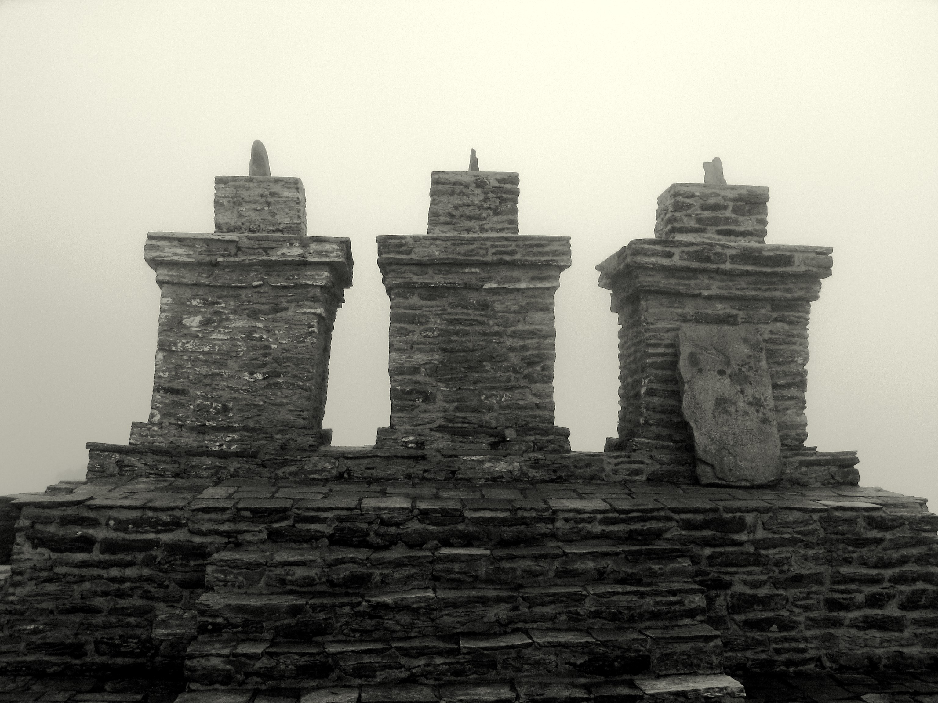 the three chortens that were used by the royal family for worship... this shot was taken at the rabdentse palace ruins...rabdentse, near pelling was the second capital of sikkim...after yuksam, which used to be the first... due to various problems primarily involving possible invasions from the nepalis...the capital was shifted once again to tumlong, in north sikkim